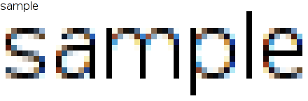 Rasterization with hinted subpixel rendering for an RGB flat panel screen